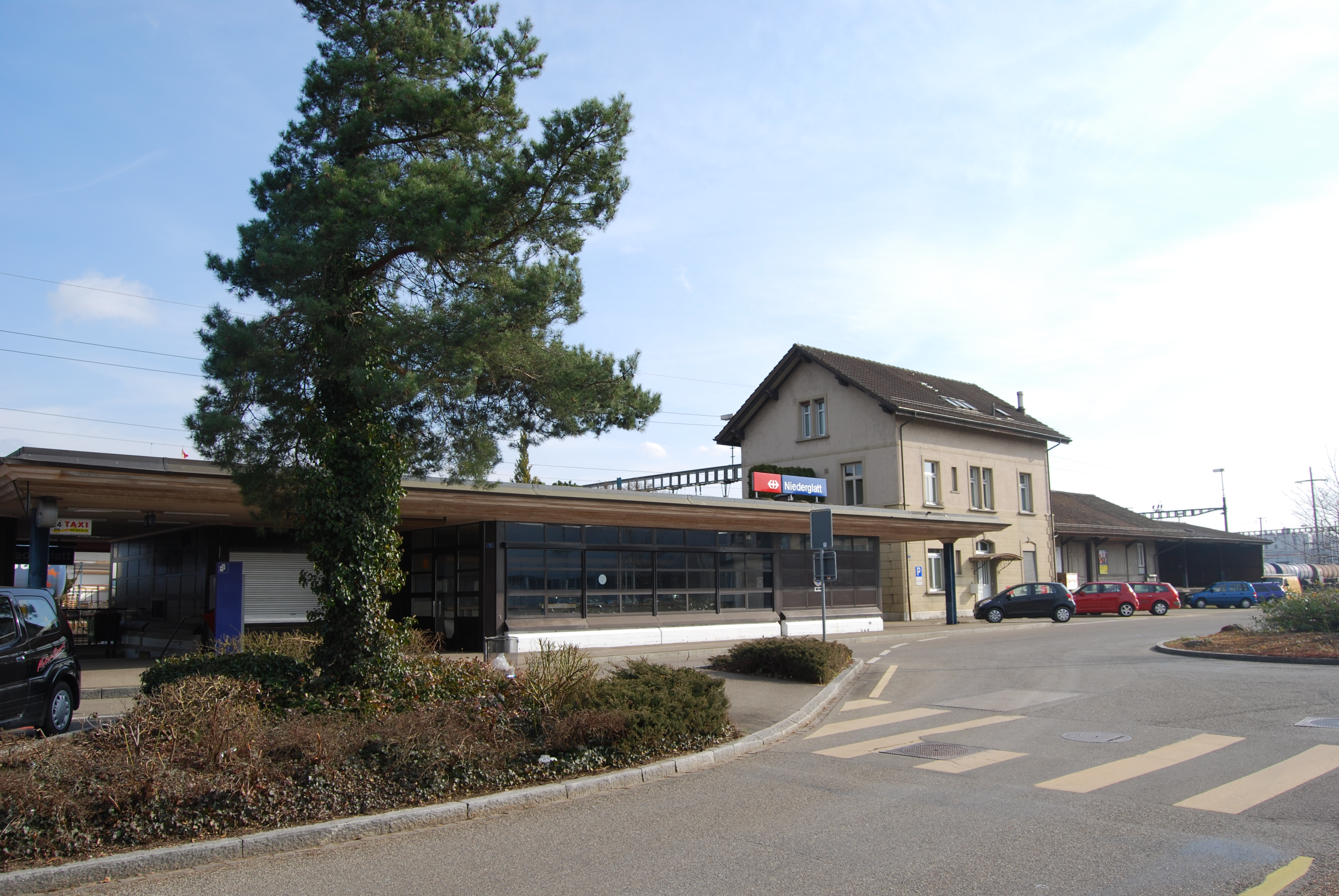 Train station of Niederglatt, canton of Zürich, Switzerland